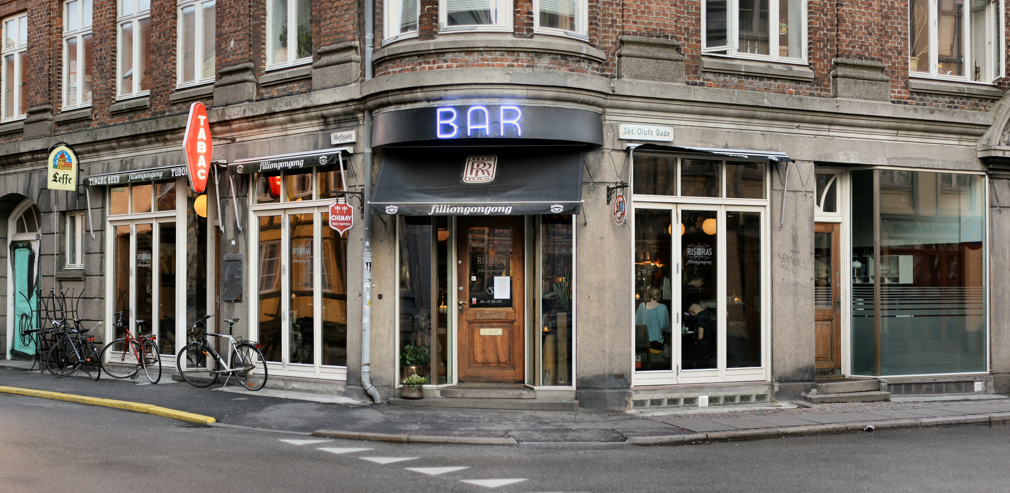 "Ris Ras Filliongongong", a Café in Mejlgade in Århus